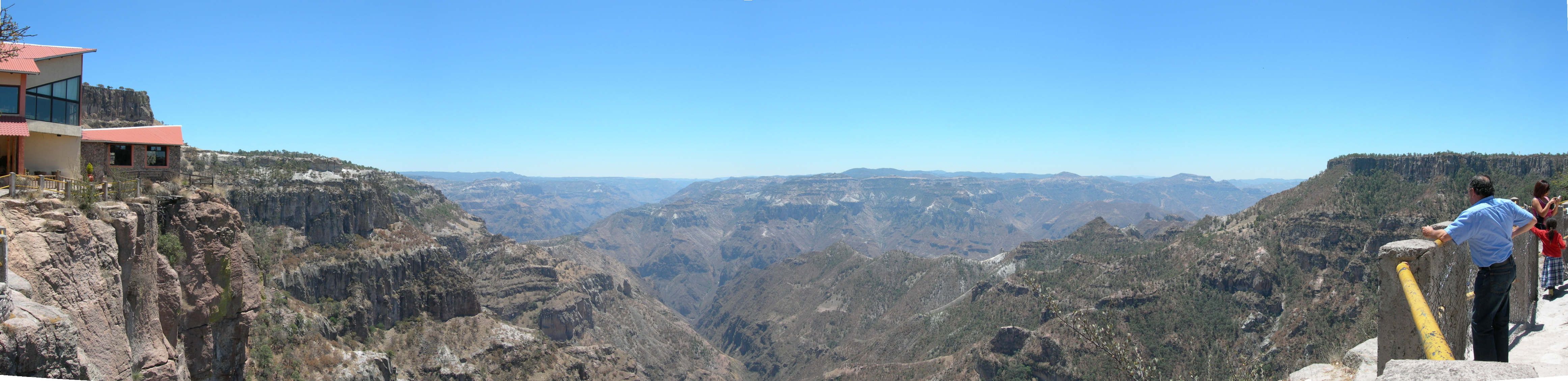 Panorama Copper Canyon in Divisadero